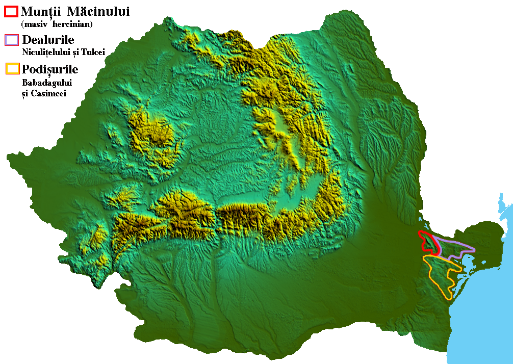 Derivative map since Qyd's map Romania-relief.png ([1]) and Marcussep's map Mapcarpat2.png ([2]), according with Albert Demangeon & Emmanuel de Martonne works ("Recherches sur l'évolution morphologique des Alpes de Transylvanie (Carpates méridionales)", Paris, Delagrave, 1906 and Géographie universelle (dir. Vidal de la Blache, Gallois), vol. IV : "Europe centrale", Paris, Armand Colin, 1930 & 1931